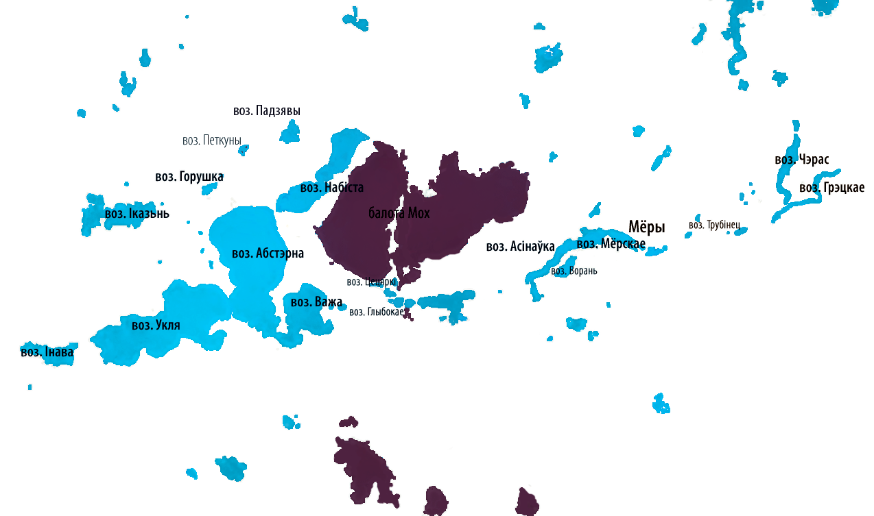 Map of a group of lakes in Belarus.